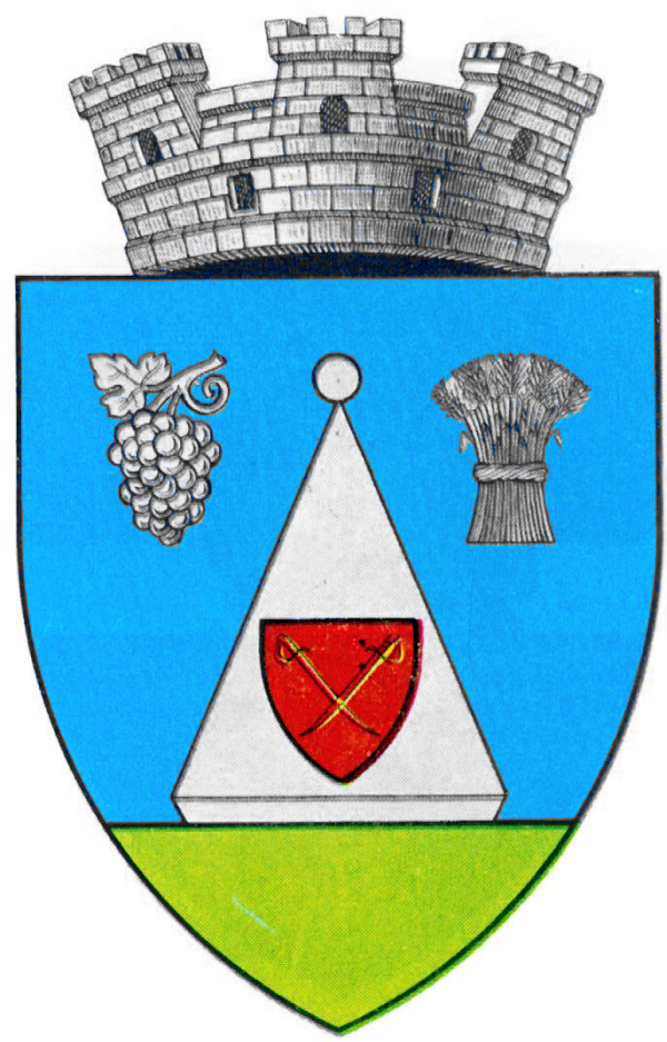 Interwar coat of arms of Orăștie, Hunedoara County, Kingdom of Romania.